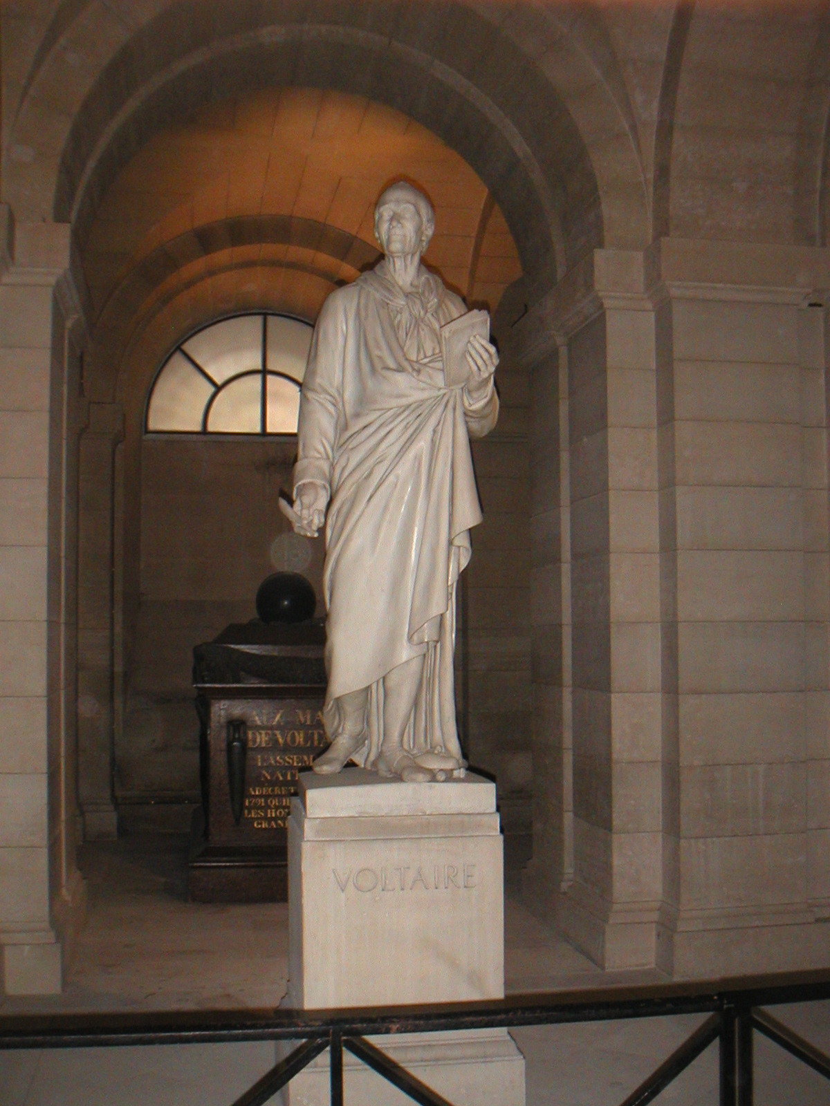 Tomb and statue of Voltaire at the Pantheon, Paris, France. Statue is by Jean-Antoine Houdon.[1] Photographed in 2007.